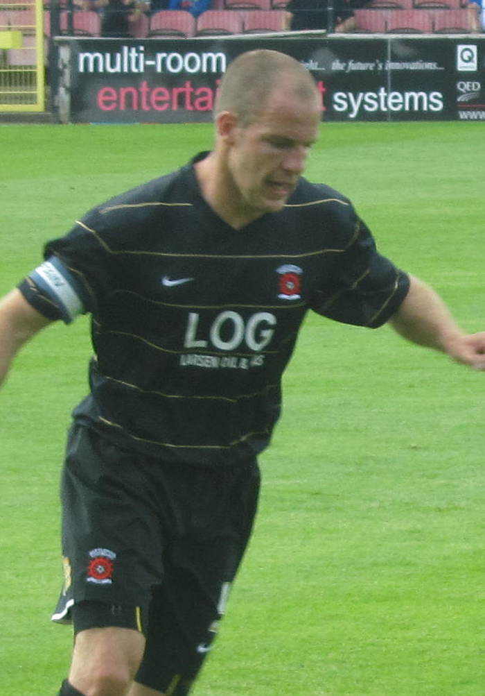 Sam Collins playing for Hartlepool United against York City at Bootham Crescent, York on 30 July 2011